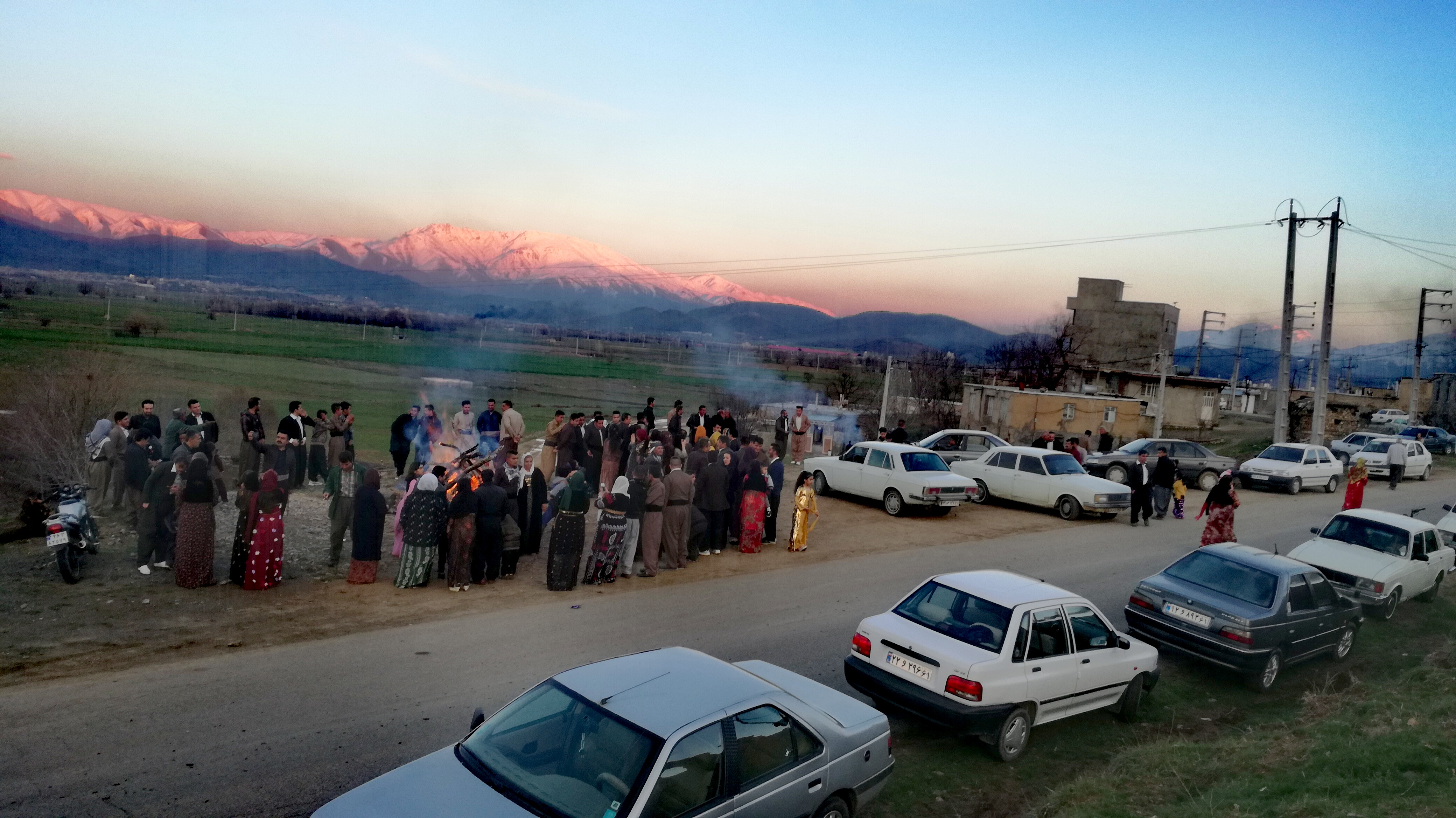 Kalkeh Jan